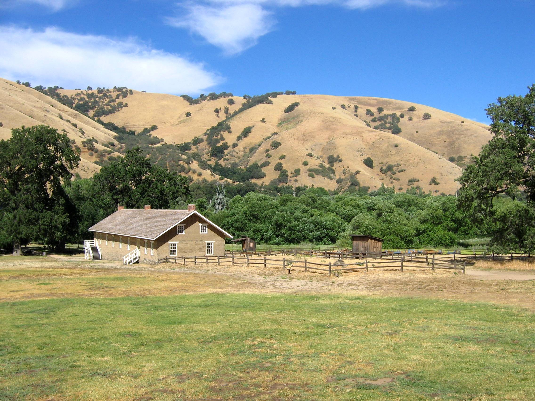 1840s adobe Barracks No. 1 of Fort Tejon — in Fort Tejon State Historic Park with the Tehachapi Mountains beyond, in Southern California. At Tejon Pass on I−5 (old Hwy 99), in southern Kern County.